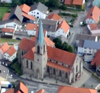 Höpfingen, Baden-Württemberg, Germany, aerial photograph